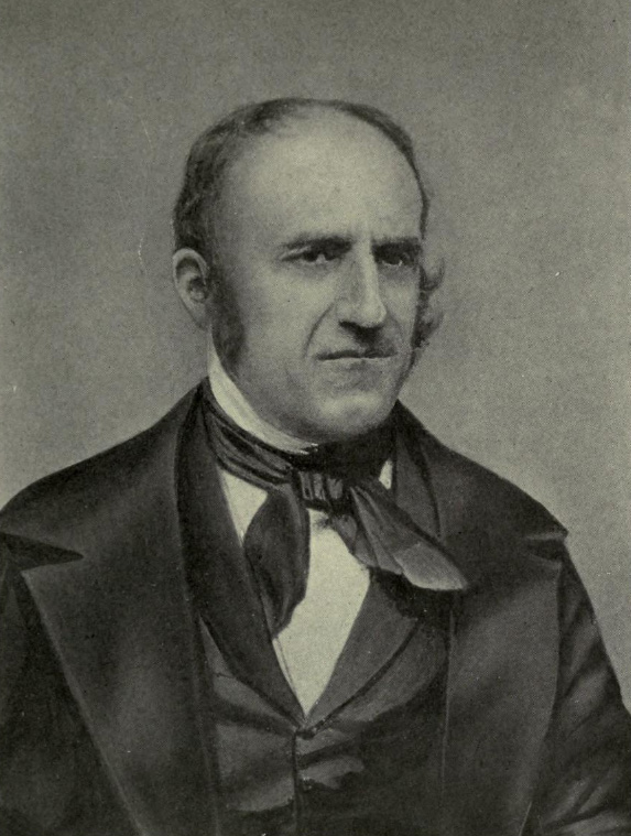 Mark Hopkins circa 1840s